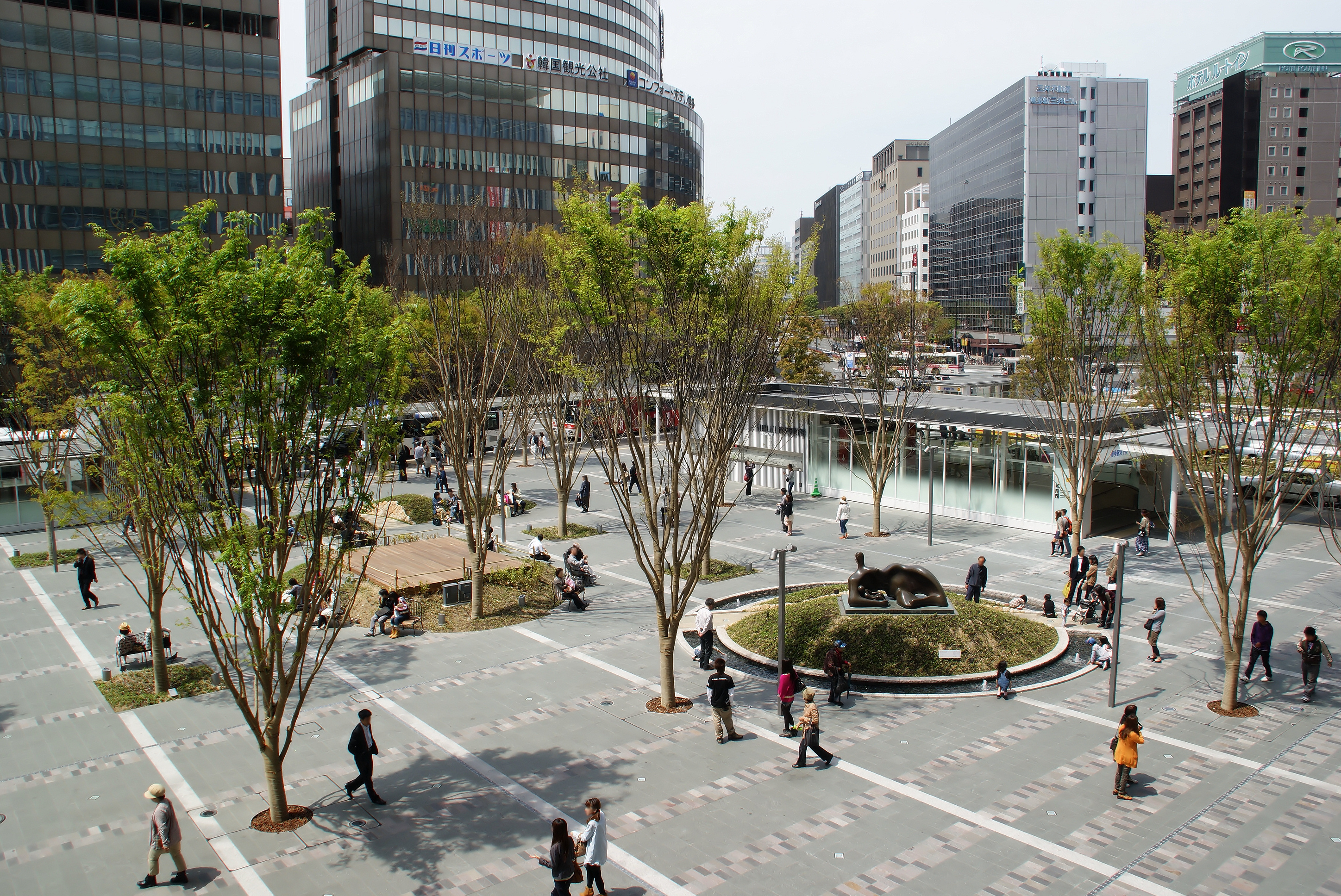 Kyushu Railway Company, Hakata Side Station Square of Hakata Station.(Hakata Ward, Fukuoka City, Fukuoka Prefecture, Japan)